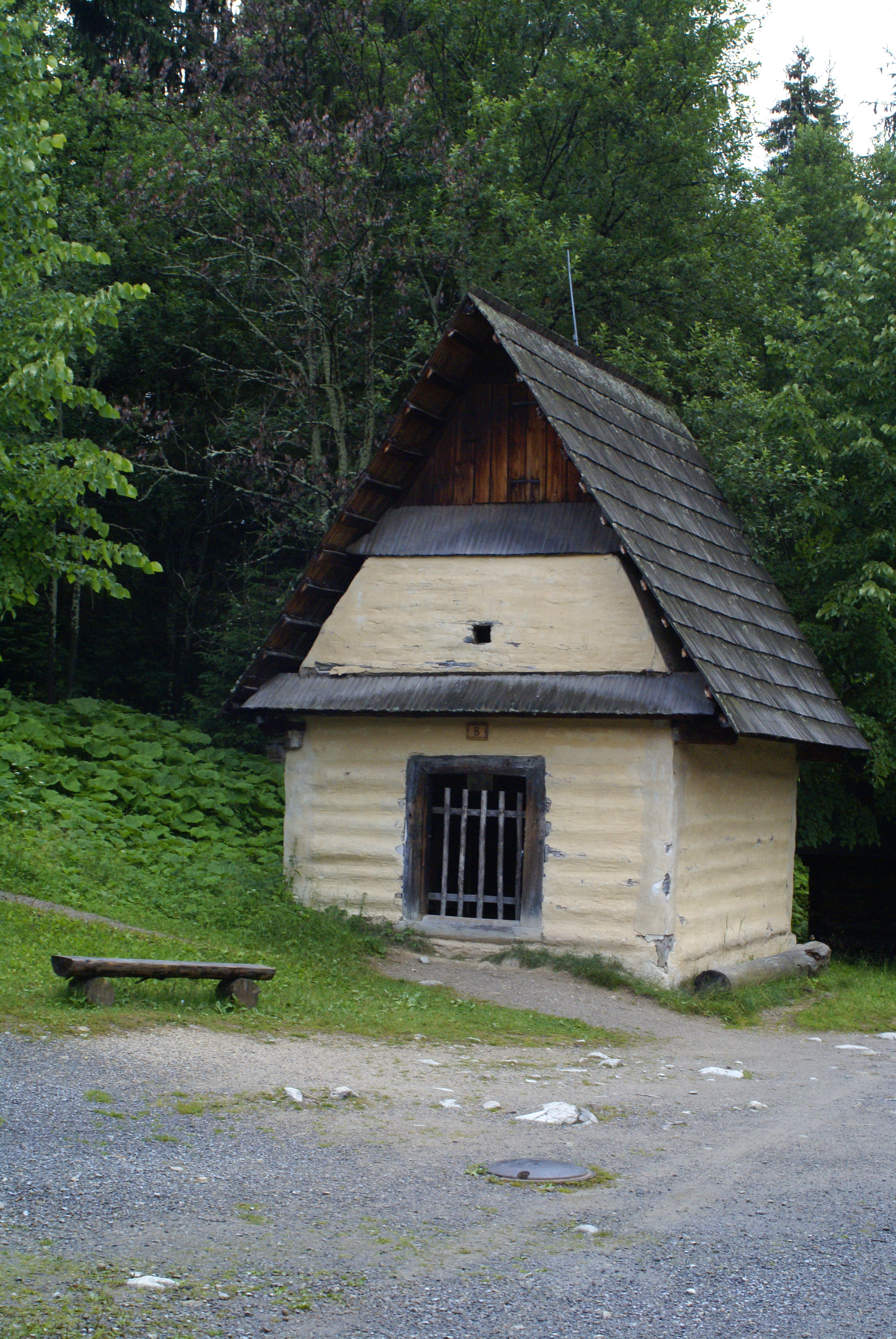 Open air museum of typical slovakian old Orava village, Zuberec, West Tatras, Slovak Republic